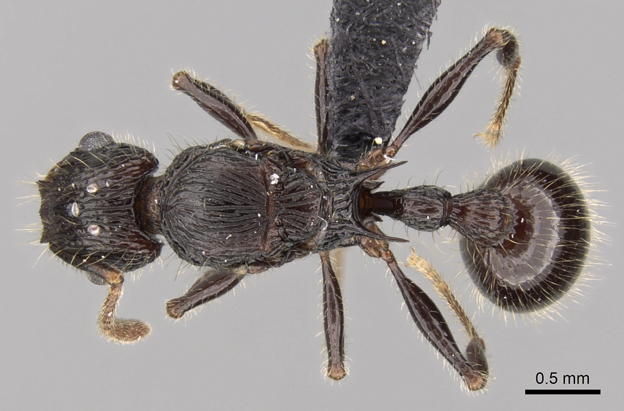 Dorsal view of Tetramorium nazgul.